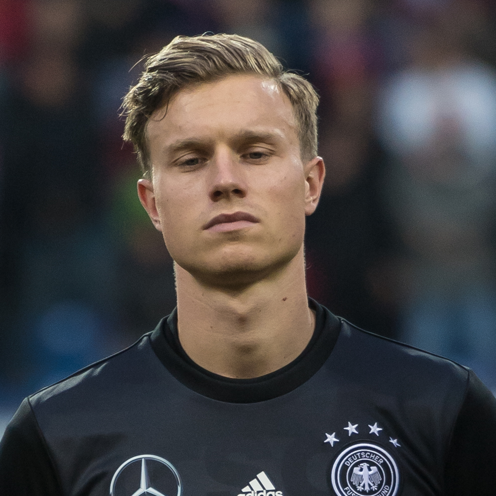 European Under-21 Championship 2017 Qualifying Round, Austria vs Germany, 11/10/2016, St. Polten